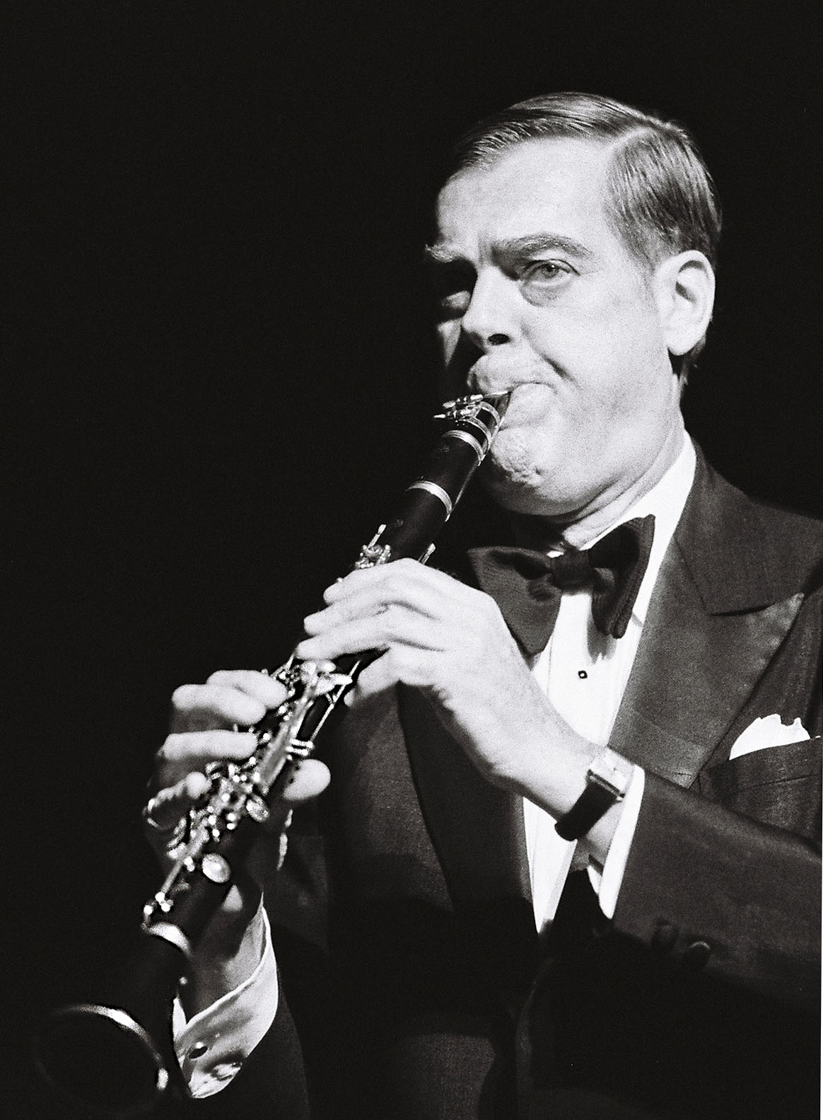 Jazz, Ltd. band January 24, 1977 including Bill Reinhardt (clarinet) and others playing at “Flaming Sally’s” nightclub at the Blackstone Hotel in Chicago. This is frame 16a out of 18 frames on a roll of film. In 2015 the film was scanned by Wolf Camera to CD. This scan was used in this article.